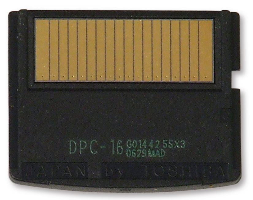 xD flash memory card, 16M, Fujifilm, back.